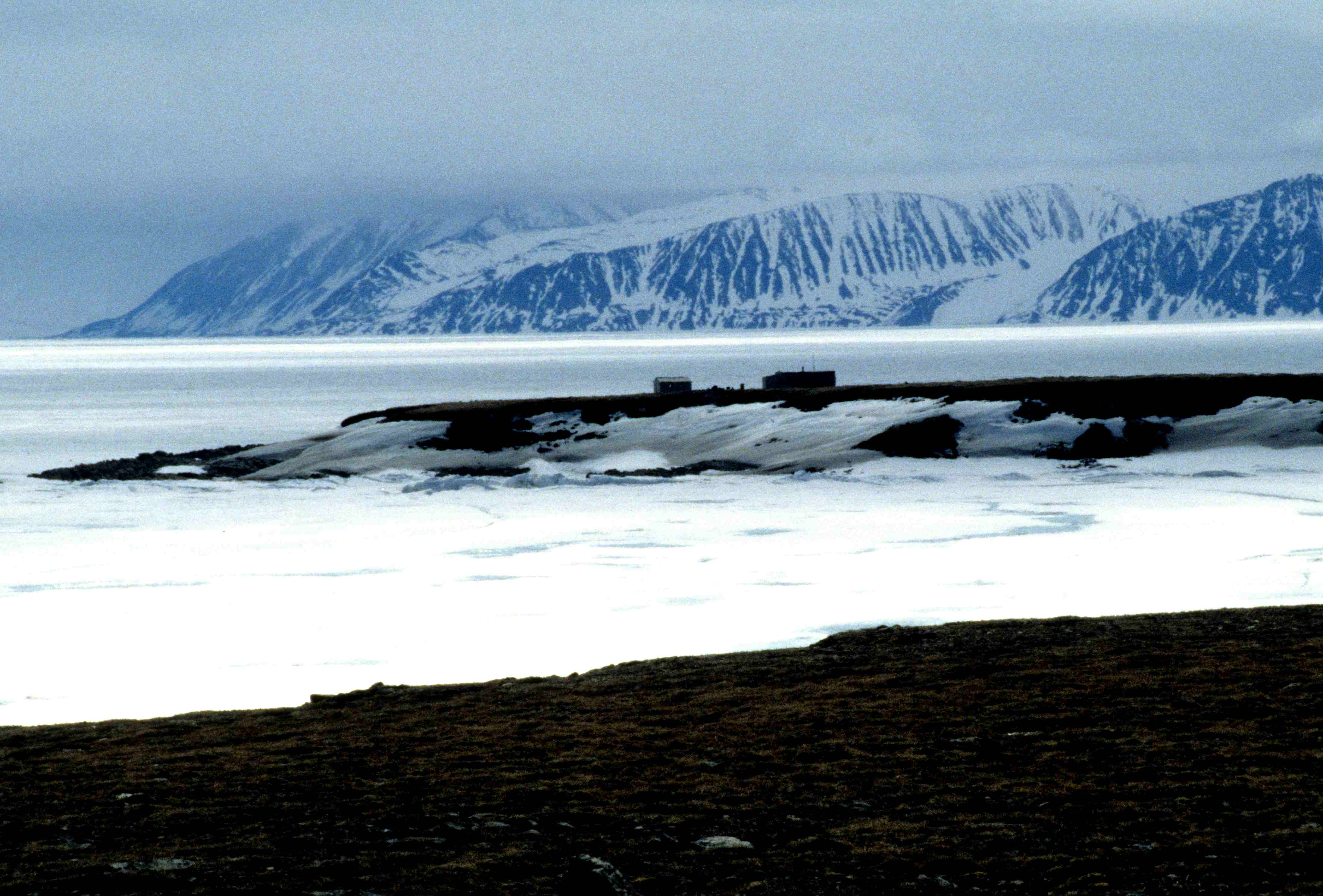 Relicts of Trading Post at Button Point near Cape Graham Moore (Sirmilik National Park, Canada); the background shows Baffin Island northern coast